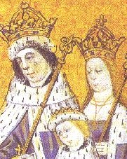 from en: File:Edward5.JPG Edward V of England, one of the princes in the tower, with his parents Edward IV and Elizabeth Woodville